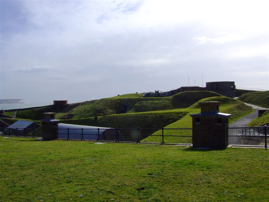 Looking down into Newhaven Fort, viewed from the North side outside.